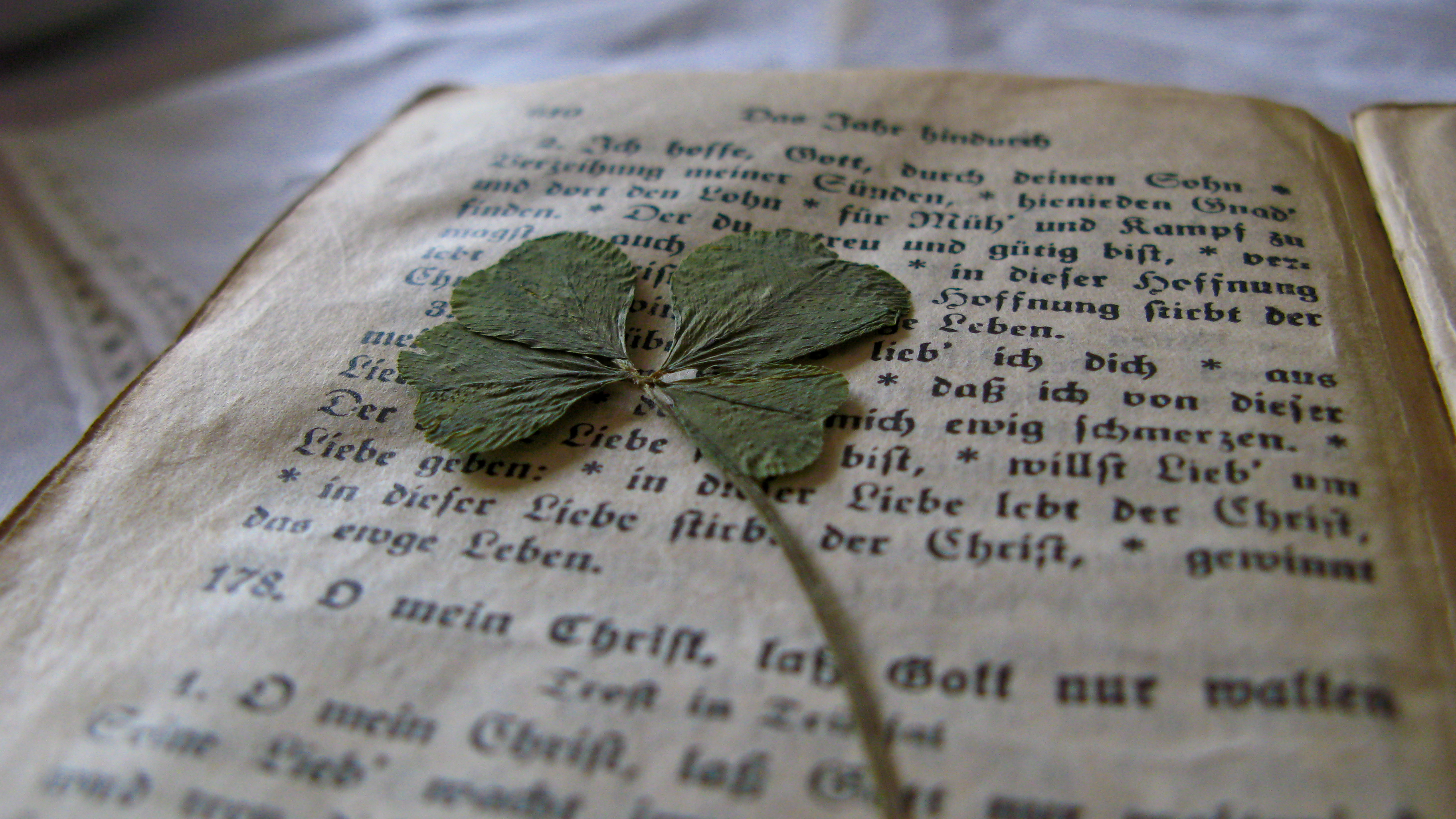 my mothers breviary